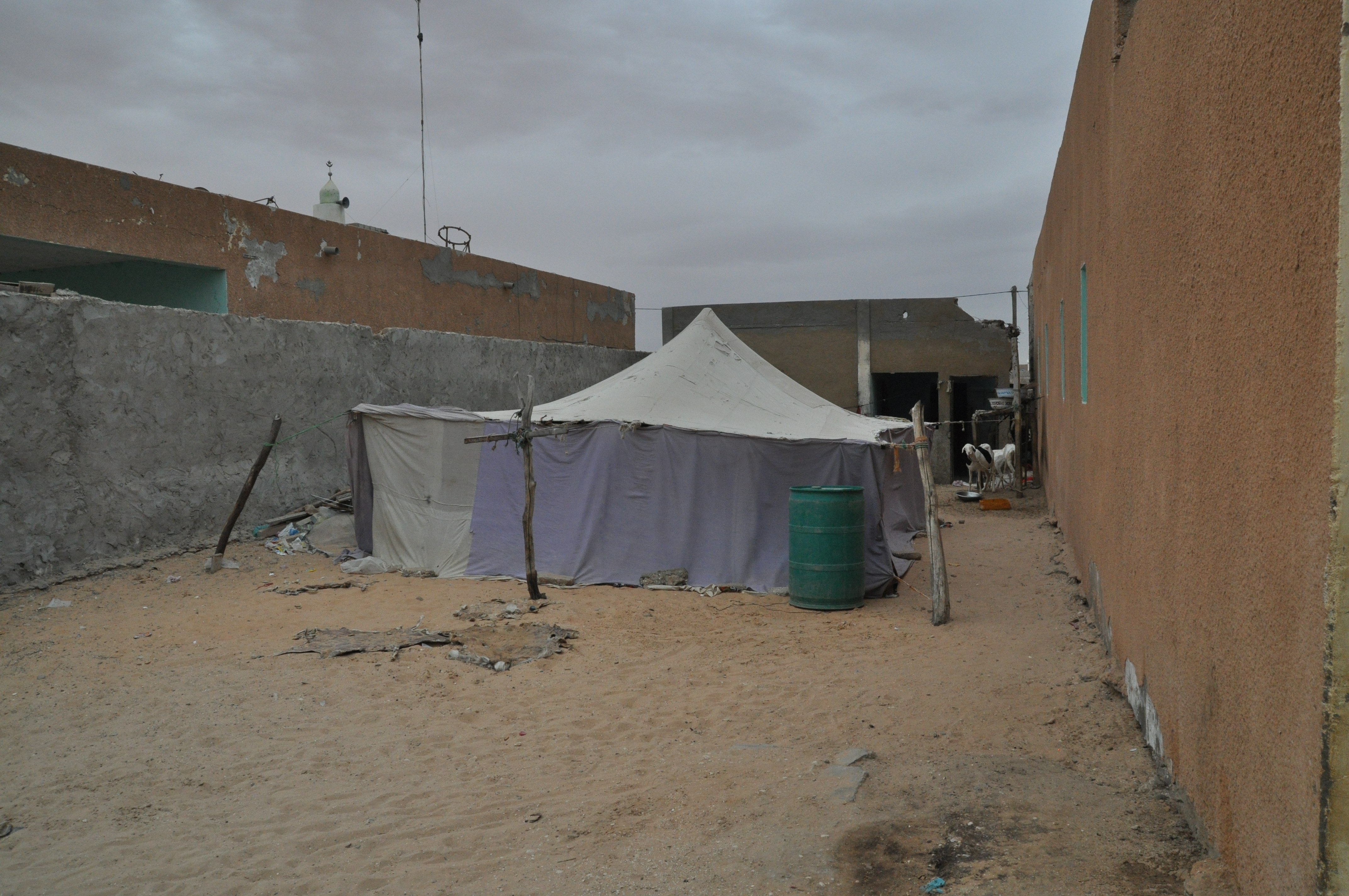 Khaïma in Nouakchott (Mauritania)